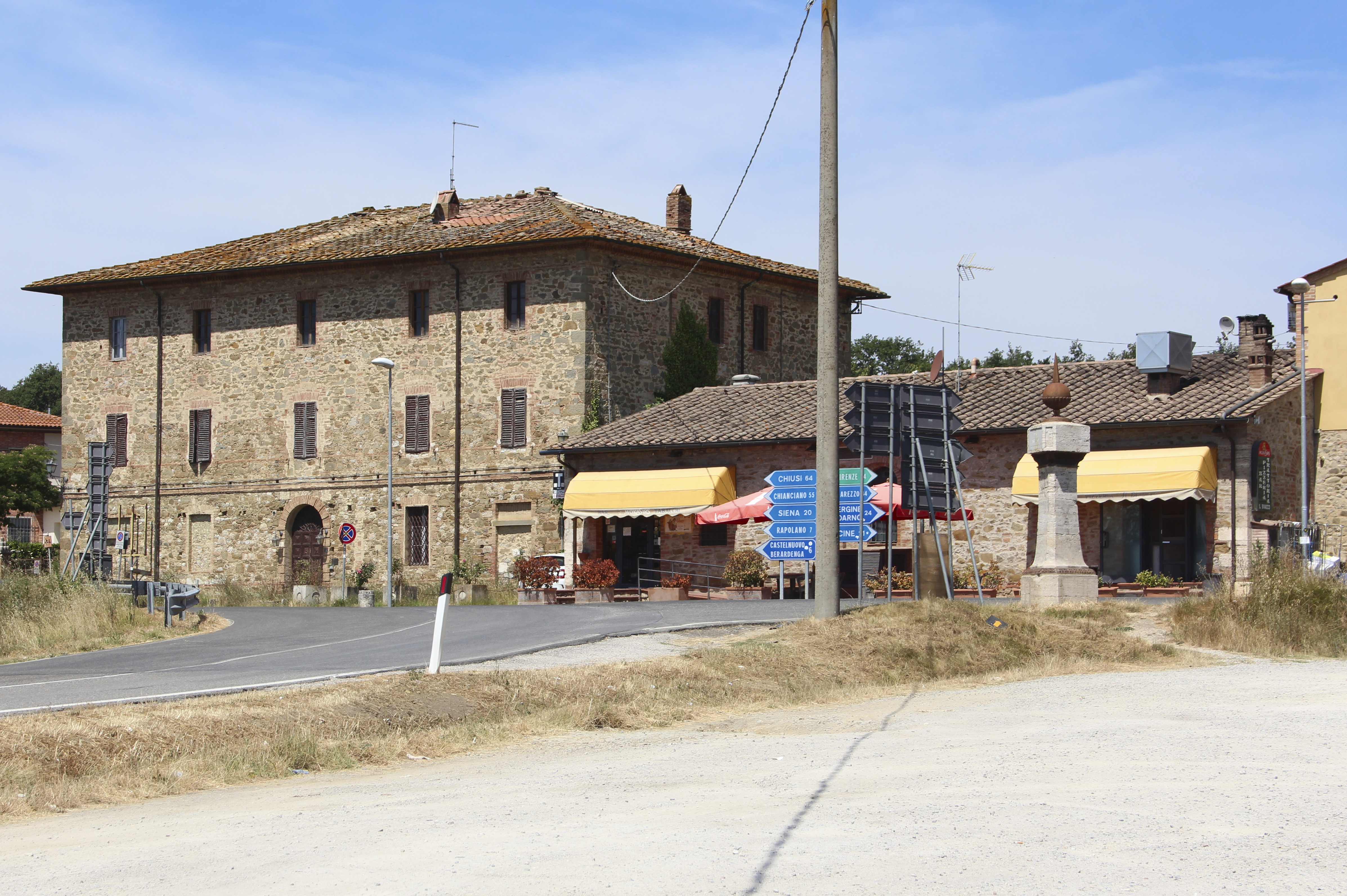 Colonna del Grillo, village of Castelnuovo Berardenga, Province of Siena, Tuscany, Italy